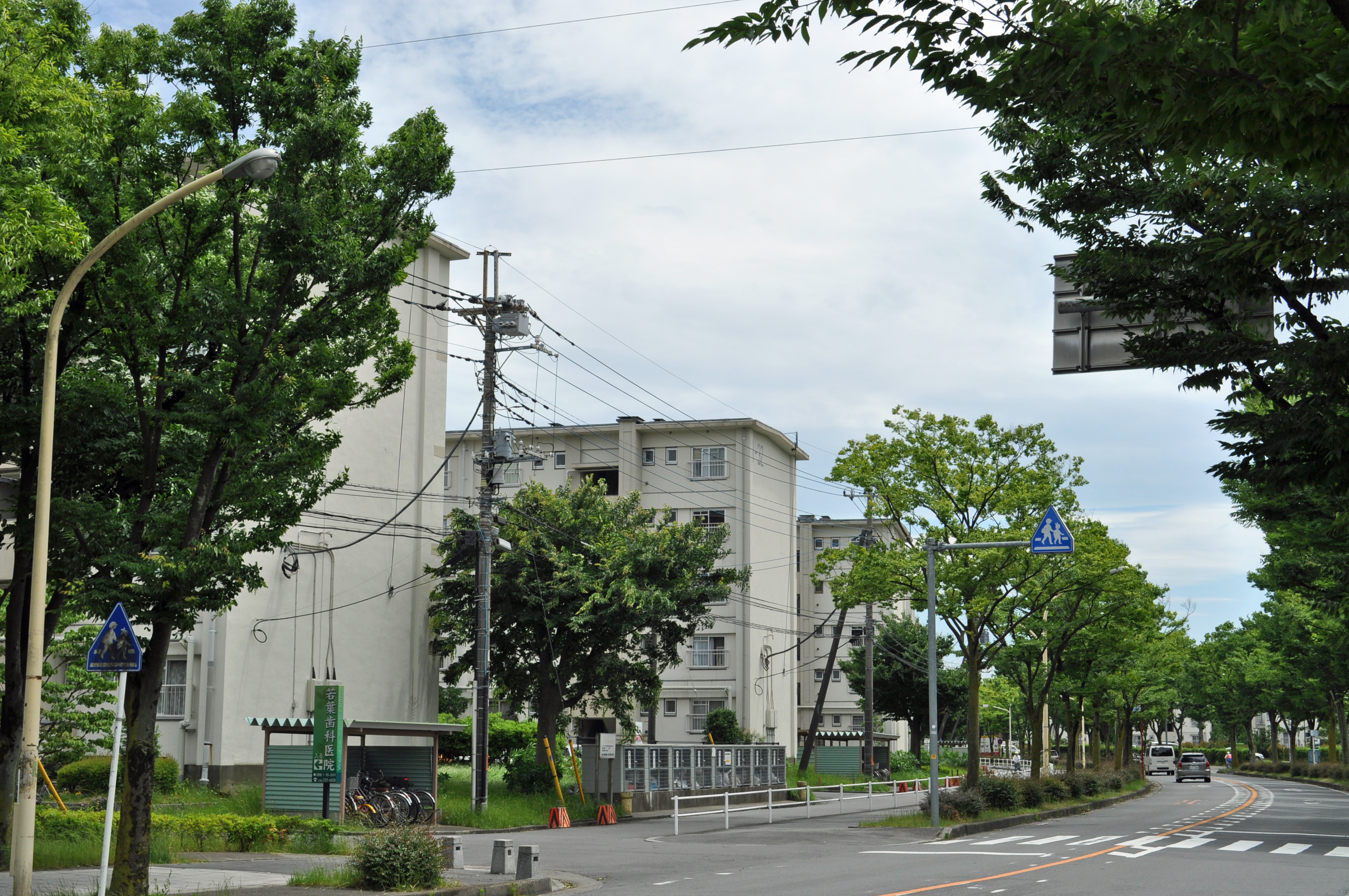 Takesato Danchi ("Takesato apartment houses complex") in Kasukabe City, Saitama Prefecture, Japan